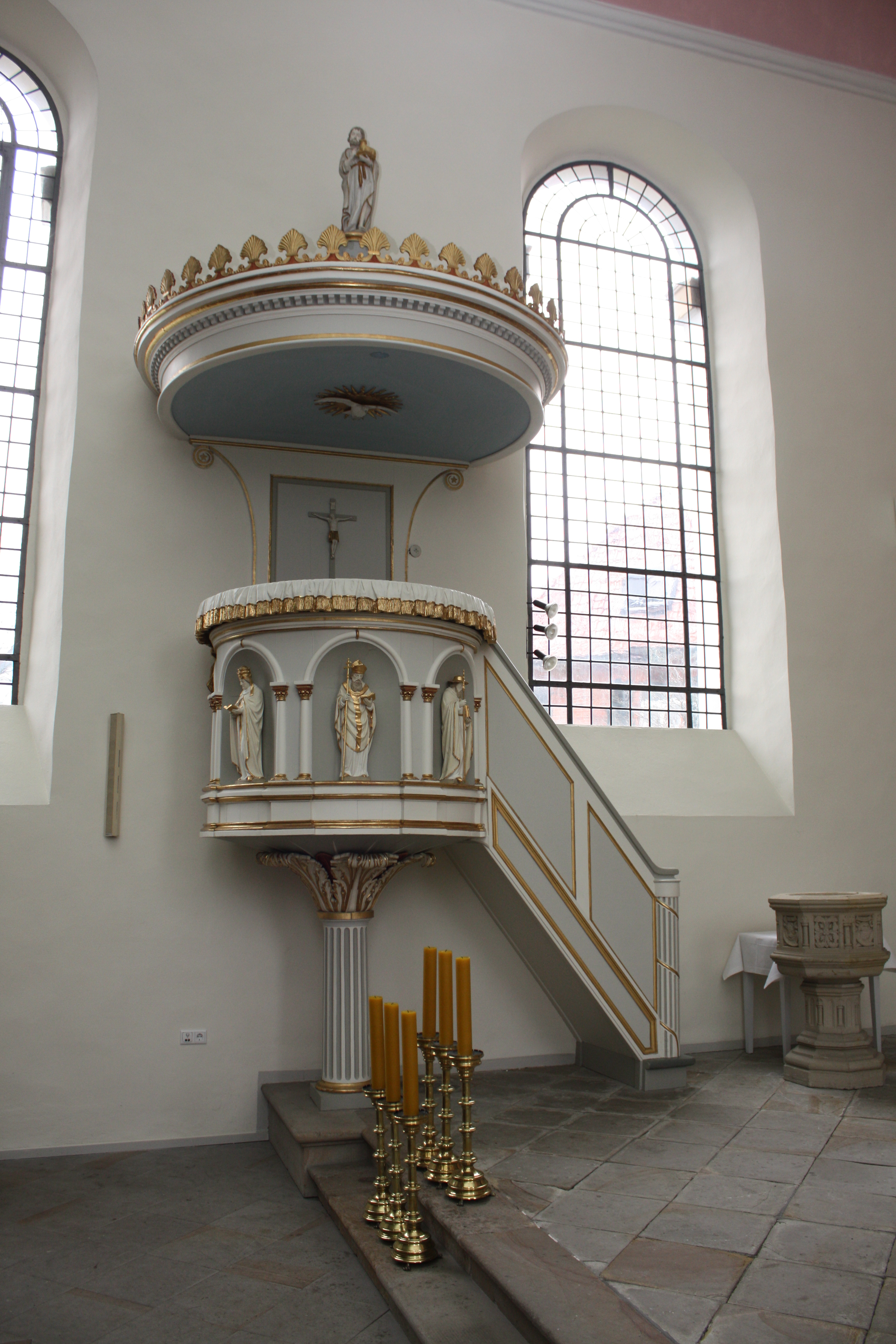 St. Johannes Baptist in Milte This photograph was taken with a Canon EOS 450D.